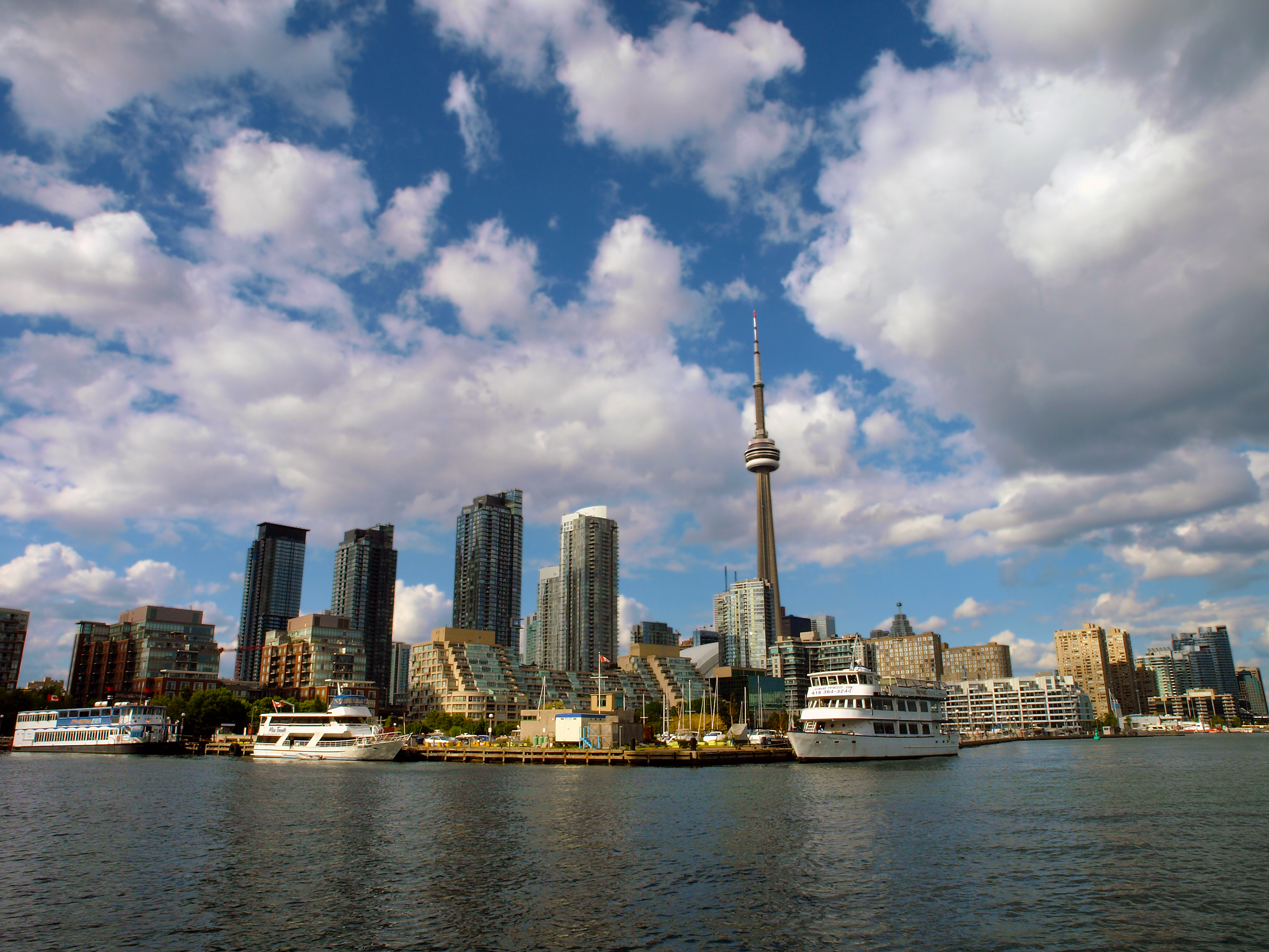 Bathurst Quay and Toronto skyline. On my way to High Park; didn't want to lose the rapidly moving clouds...